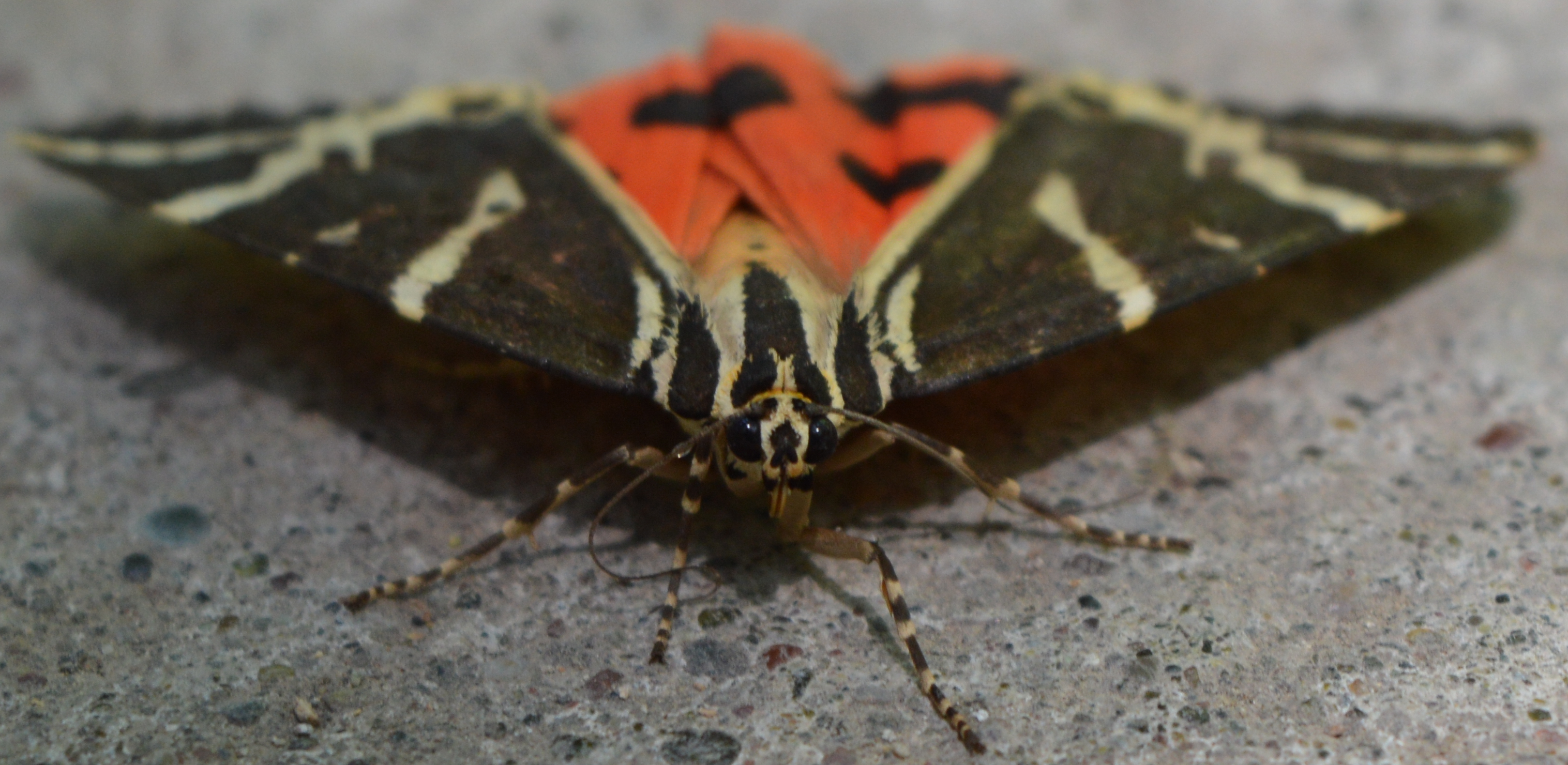 This is a photography of Natura 2000 protected area with ID GR4210006